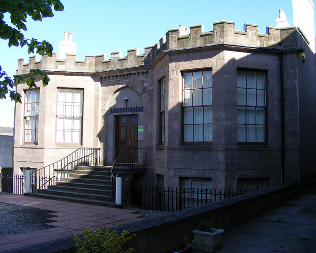 The Castle Stead at Montrose The Castle Stead stands on the site of the twelfth century Castle of Montrose. Once the home of the first Marquis of Montrose and subsequently sold to Major-General Nicholas Carnegie who made his name with the East India Company. It now houses the Jobcentre.